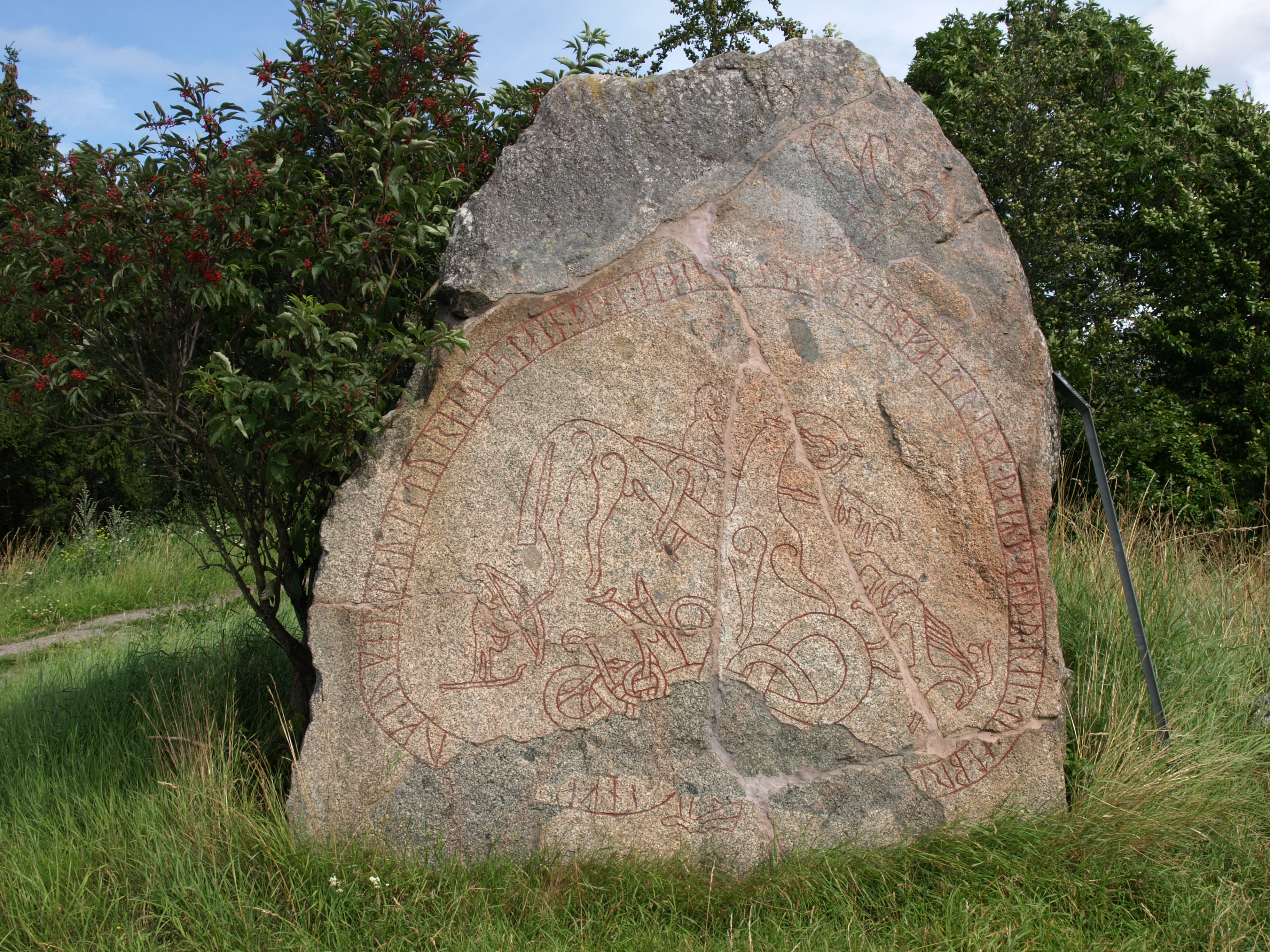 The runestone Upplands runstenar 855 in Uppland, Sweden.